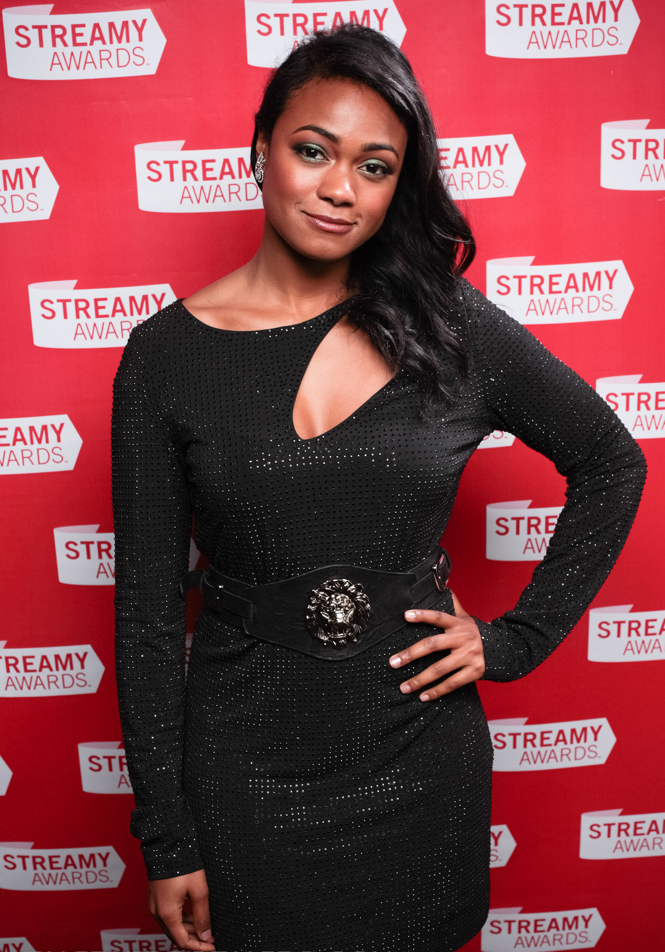 Thanks for viewing the official Streamy Awards photos! The exclusive photos of the winners and presenters are here. You don't want to miss those! We could not have done this without our awesome team of associate photographers: Bonny Pierzina Gabriel Ryan Laura Kearse Joe Philipson Kevin Calumpit Luis Miguel Munoz-Najar Actually, without our production team we could not have done this either: Josh Allard Megan Chrisofferson Mark Bealo Scott Kearse Thanks so much everyone for your hard work, and thanks so much Streamy Awards for using us again for the official photography! Please feel free to use these photos under a Creative Commons Attribution license (which means you may use the photos as long as you attribute the photos to and provide a link back to ) You can learn more about the Sreamy Awards by visiting Also, you can learn more about these photos by visiting our website with our favorite Streamy Awards photos.